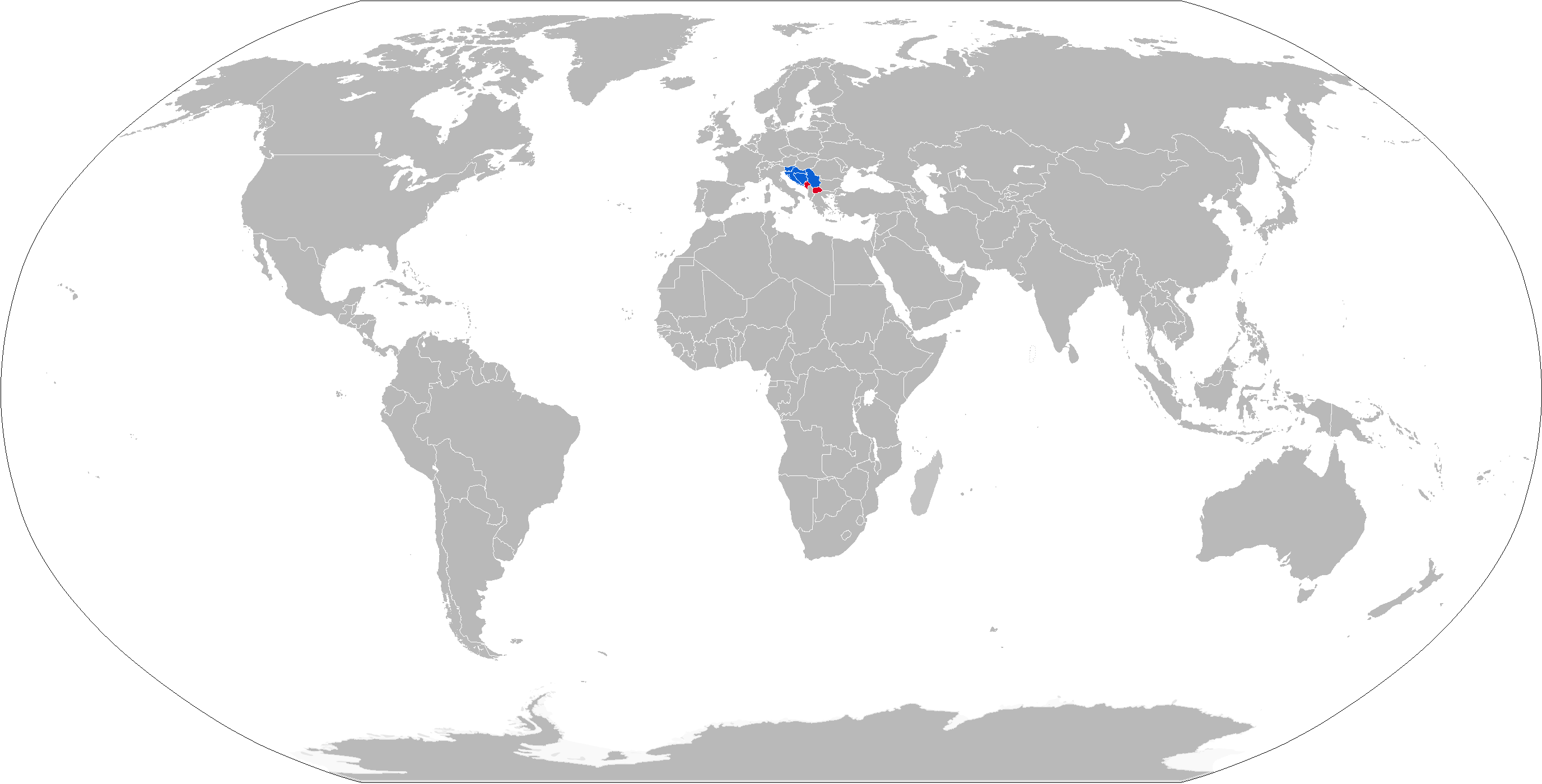 Map of M-80 operators in blue with former operators in red